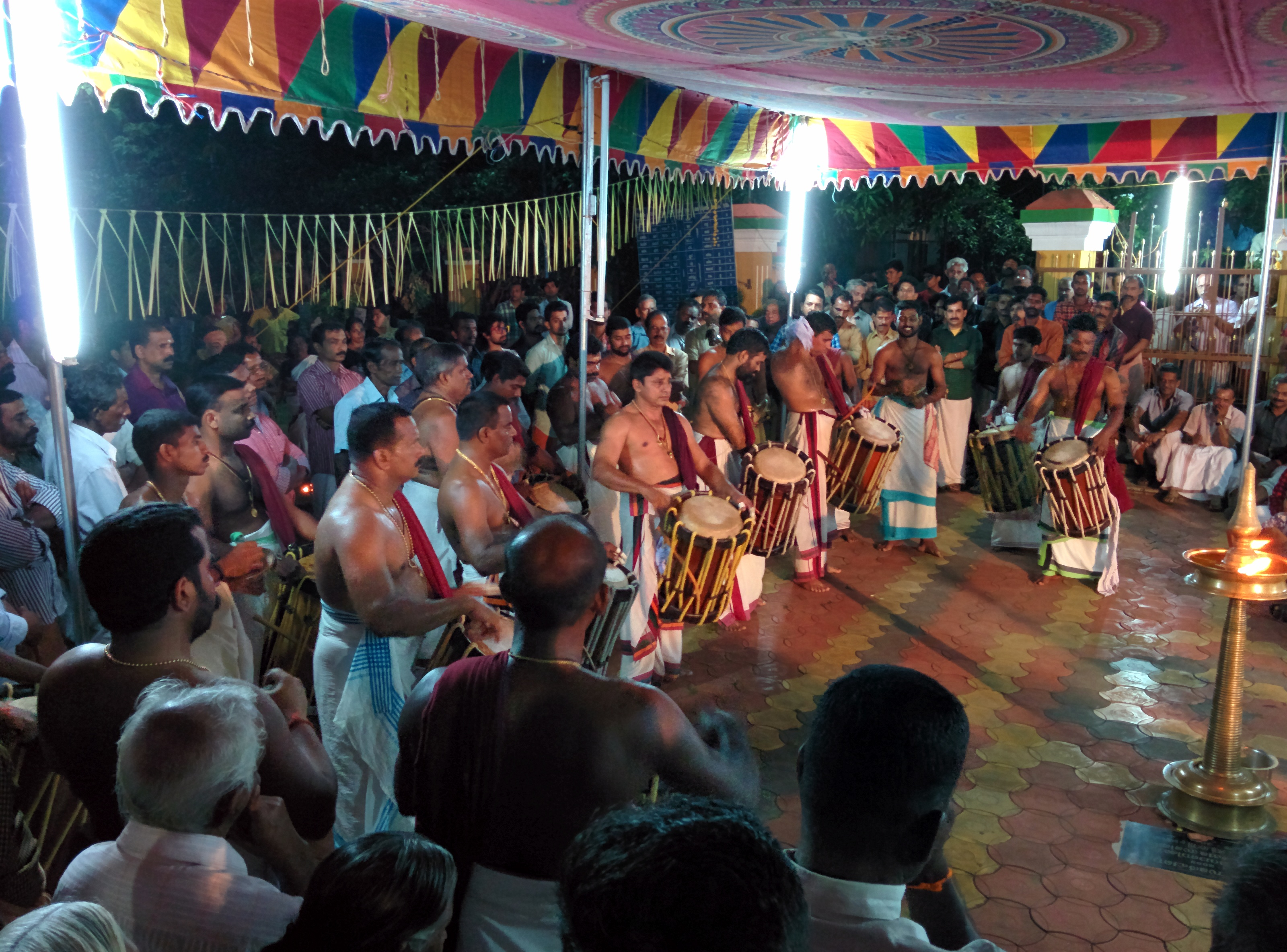 "Pancha Thayampaka" is a version of Thayampaka (which is a performance using Chenda) which is lead by five people. The lead performers in this picture are, Poroor Unnikrishnan, Kalpathi Balakrishnan, Mattannoor Udayan Namboothiri, Sukapuram Dileep and Chirakal Nidheesh. Performed at Machaad Thiruvanikkavu Temple.